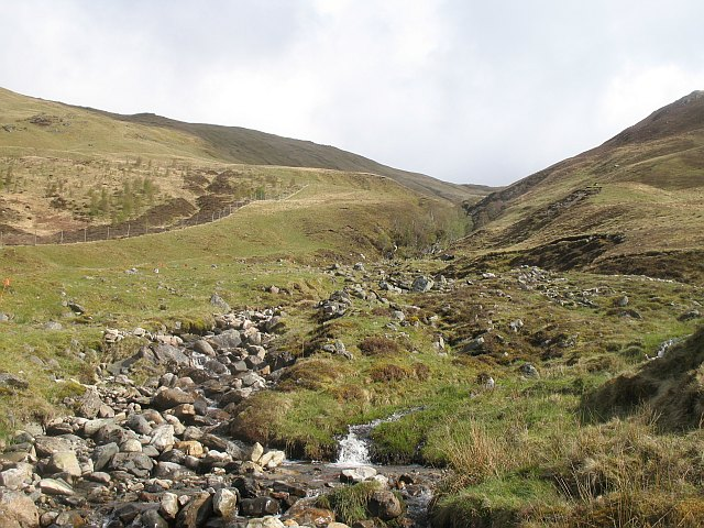 Allt Coire nam Miseach Burn draining Coire nam Miseach. Once it flowed onto an alluvial plain at the head of Loch Giorra, but now flows into a hydroelectric reservoir that combines Giorra with Loch an Daimh. The flags mark a Scottish Six Days motorcycle trials route. They were not used due to bad weather on the day of the stage.